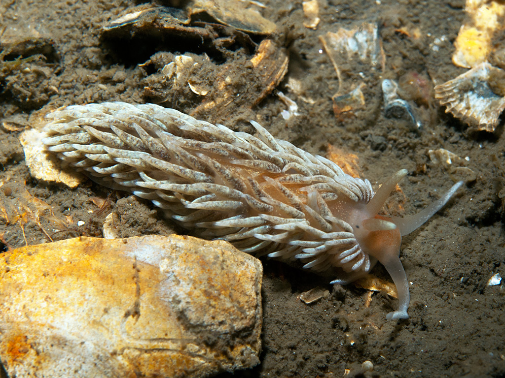 Strangford Lough, Co Down, Ireland.